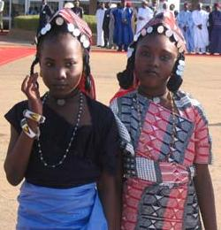 Young girls wearing traditional Zarma dresses during a gathering. Today, most Zarma women wear modern clothes.